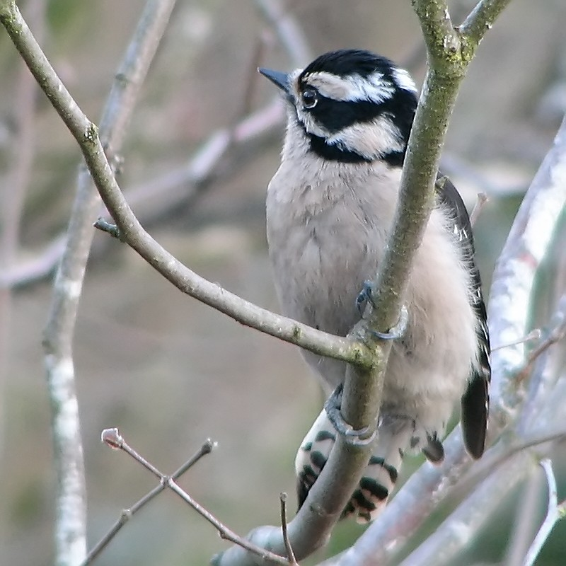 Female Downy Woodpecker (Picoides pubescens) perching on a branch.